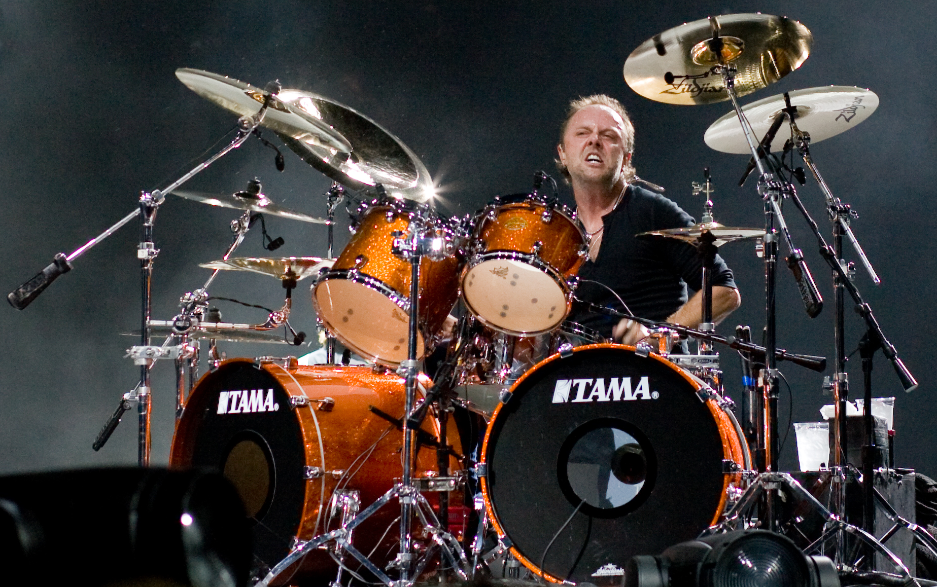 Lars Ulrich of Metallica performing live at O2 in London, UK, 15 September 2008